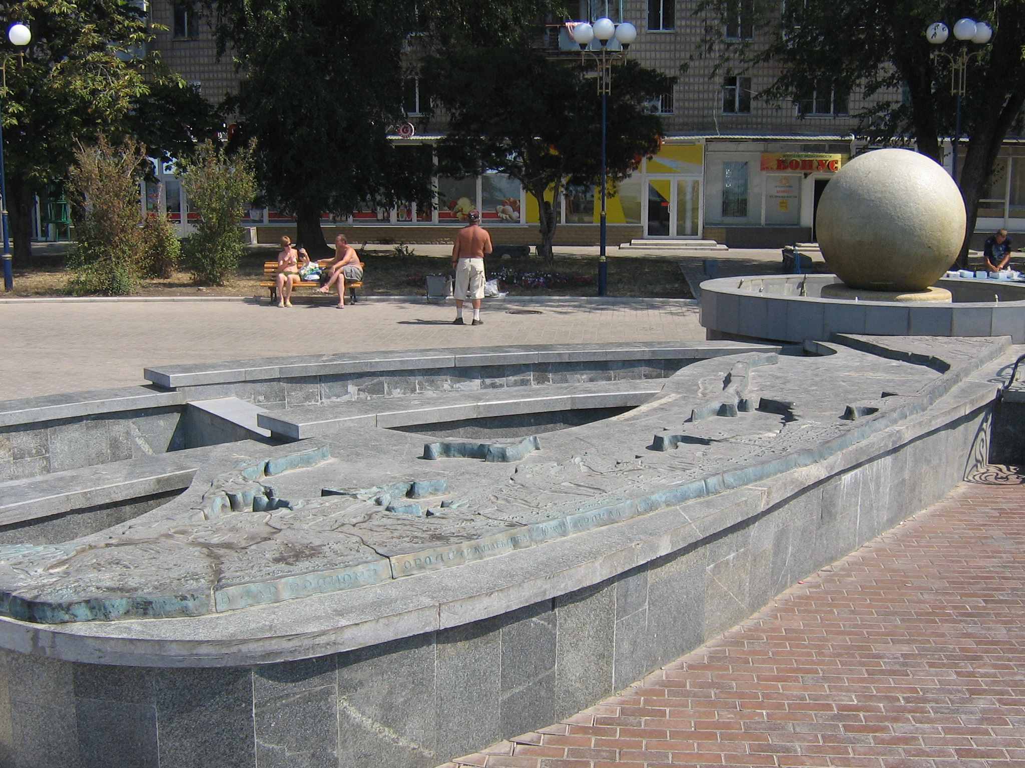 Model of Beryanskoy of scythe. Berdyansk